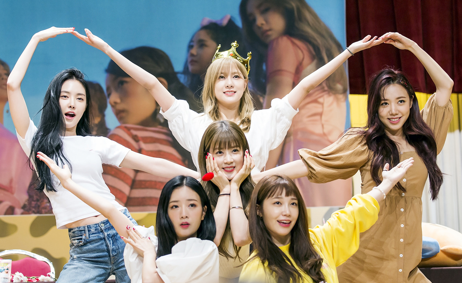 Apink at a fan signing in Sangam in July 2018